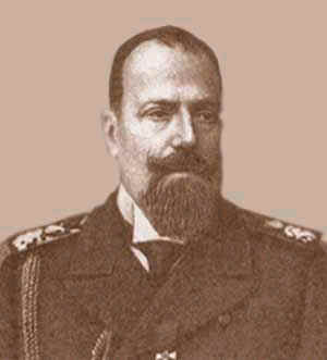 Alexei Alexandrovich Romanov Grand Dukeof of Russia, here as General Admiral and Commander in Chief of the Russian Fleet during the Russian - Japanese War